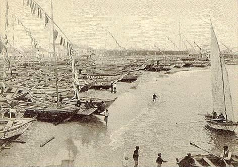 Port of Povoa de Varzim